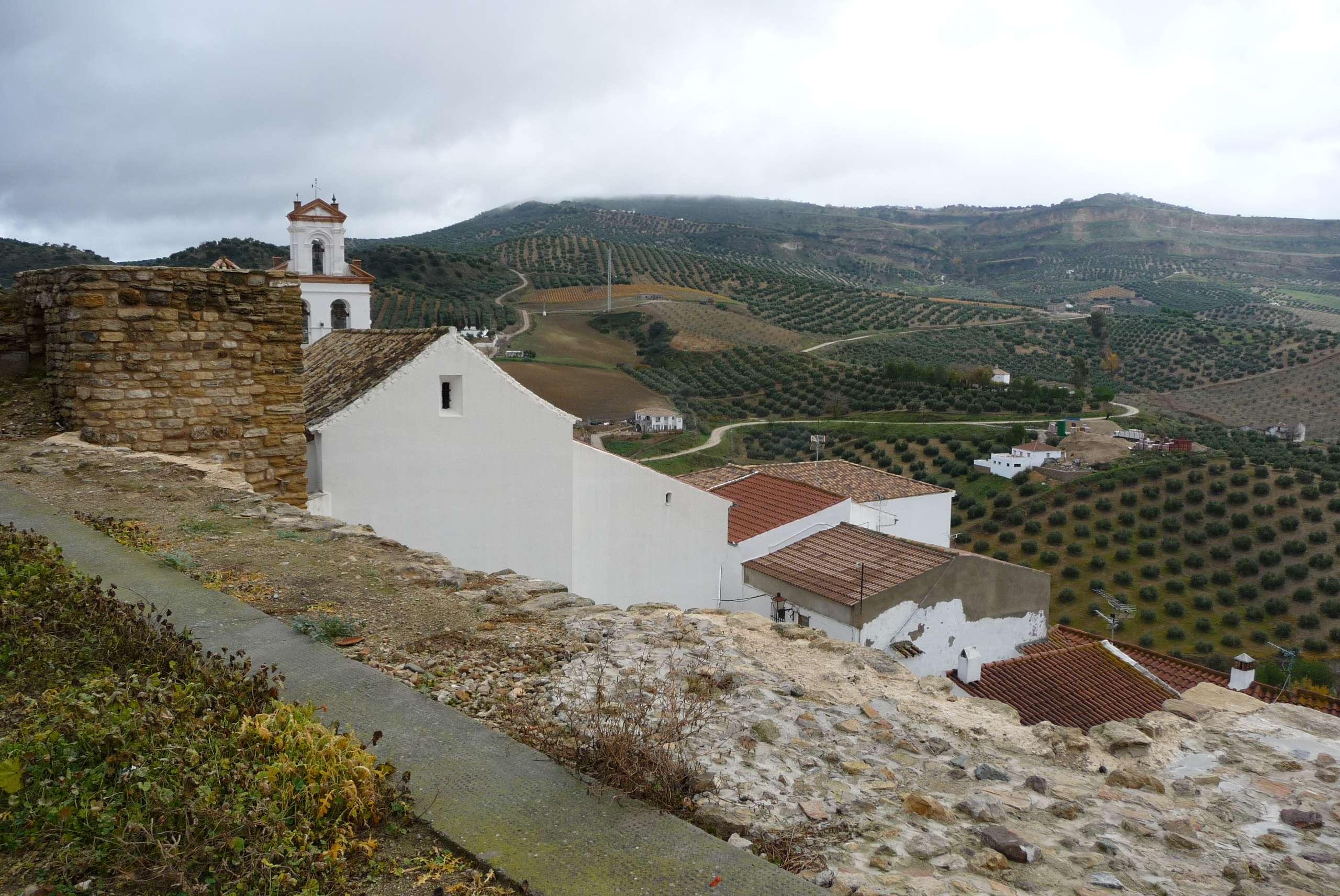 Church (Iglesia)